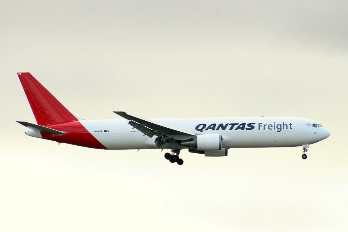 Express Freighters Australia, a subsidiary of Qantas, operates this Boeing 767 freighter on behalf of Qantas Freight on trans-Tasman services, at Sydney Airport.